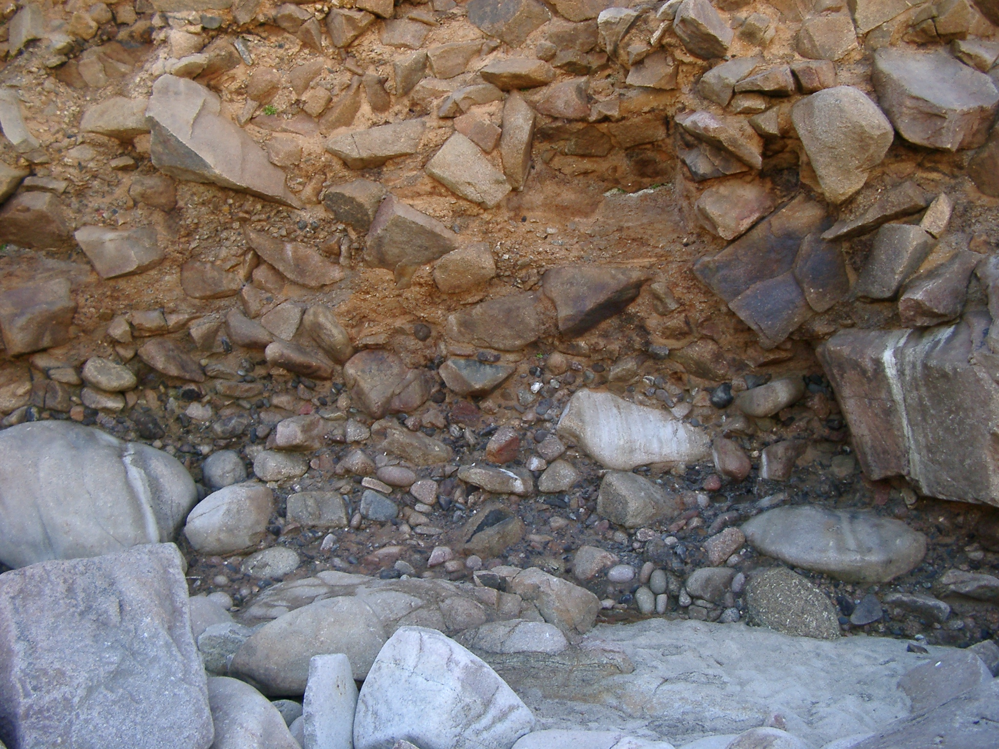 Raised Beach and head deposits. Rounded stones in eroded cliff were beach material 120000 years ago when the sea level was a bit higher due to a warmer climate. The climate then worsened as the world went into the most recent glacial period (100000 to 15000 years ago) and the area was tundra - the angular rocks above were split by ice and sea level was over 40 metres below current levels